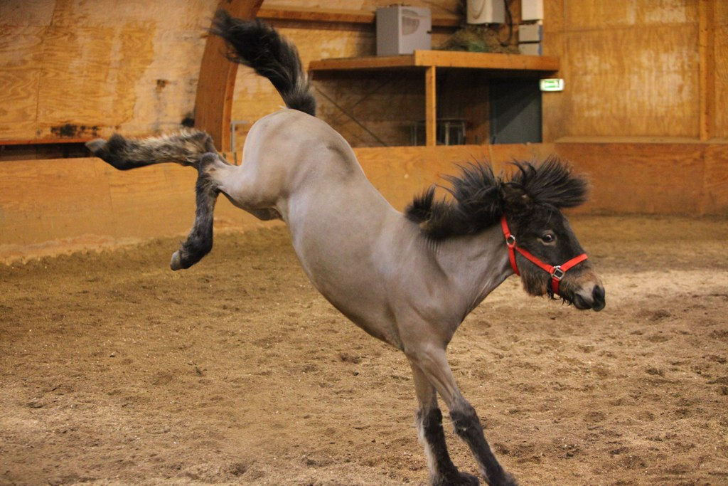 A young horse bucking. Horse may be a weanling or a yearling, depending on breed, absent other information, no further assessment can be made